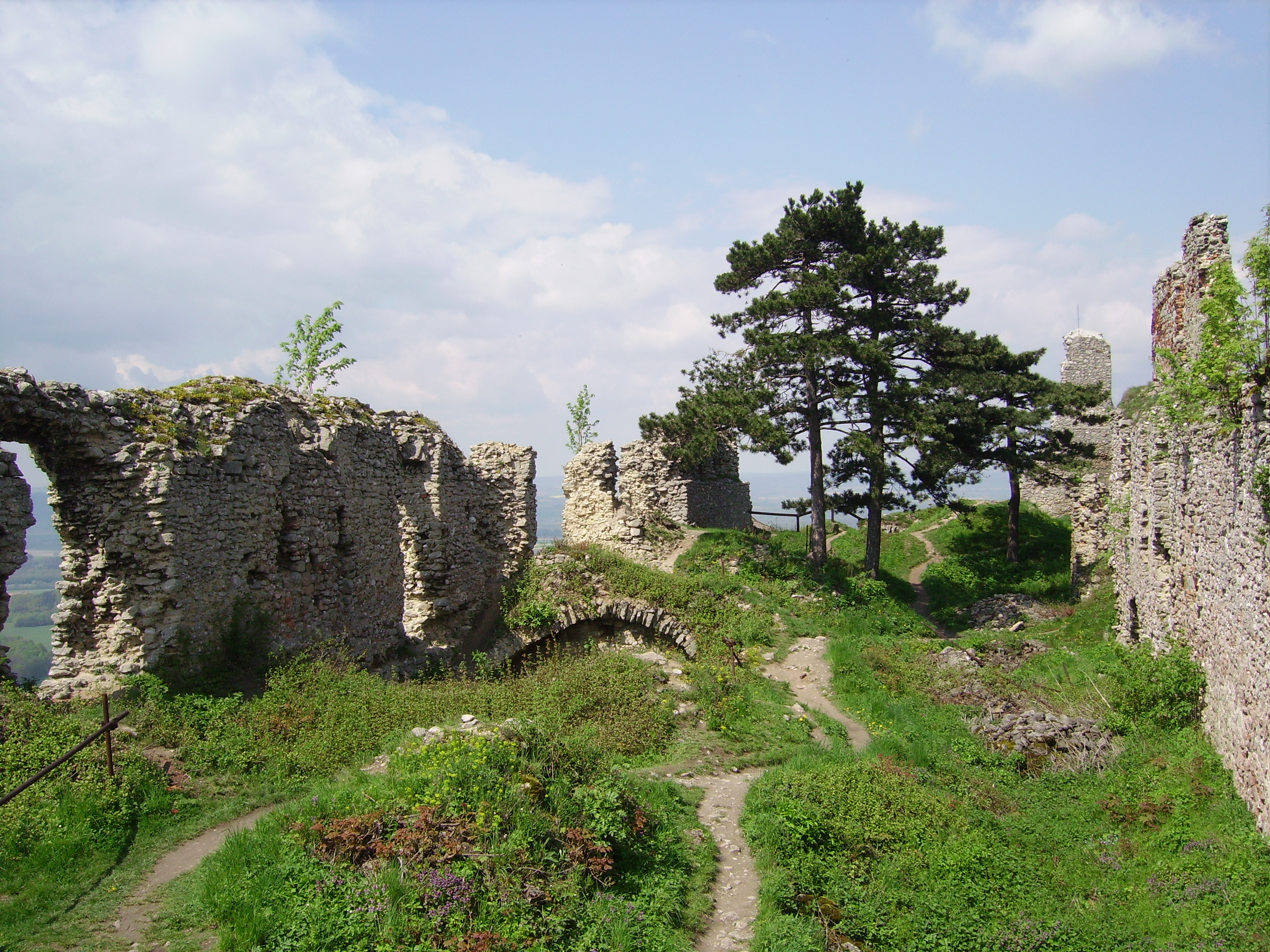 Stary_Jicin_Castle10.JPG